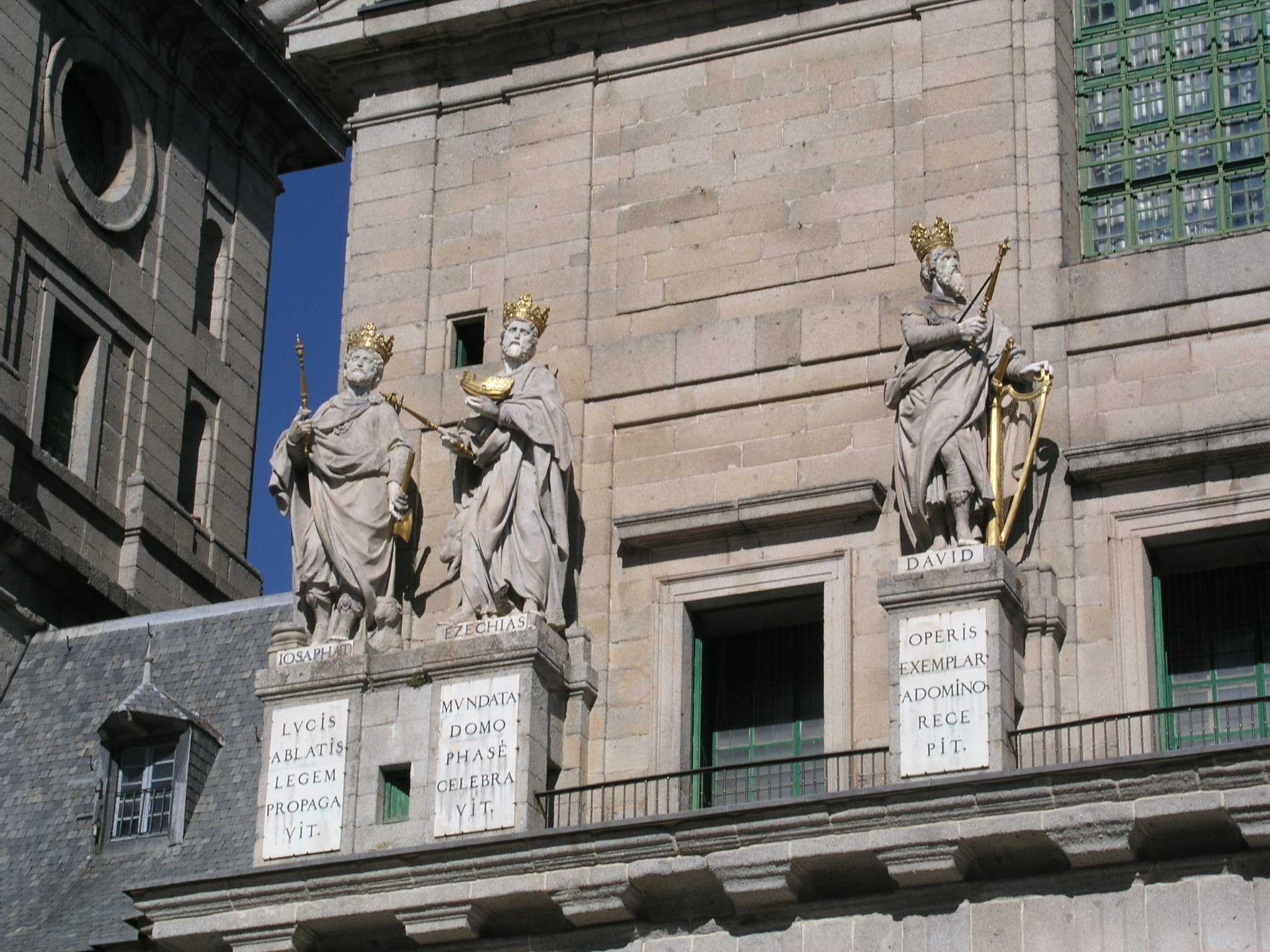 El Escorial, Statues at the Basilica entry.